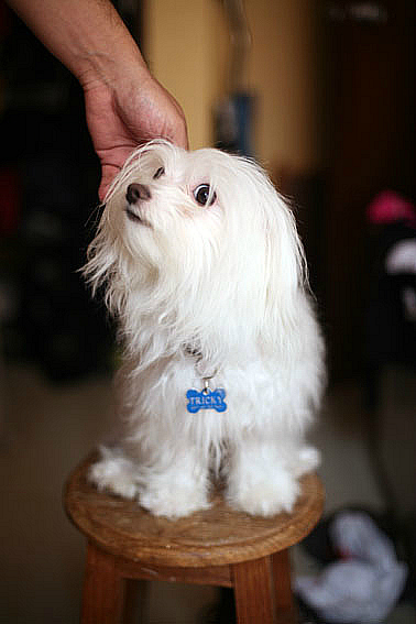 Maltese